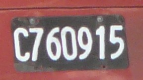 Typical Argentine vehicle registration plate, 1970-1994 scheme